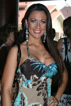 Miss Cayman Islands - Rebecca Parchment in Miss World 07, Sanya, China